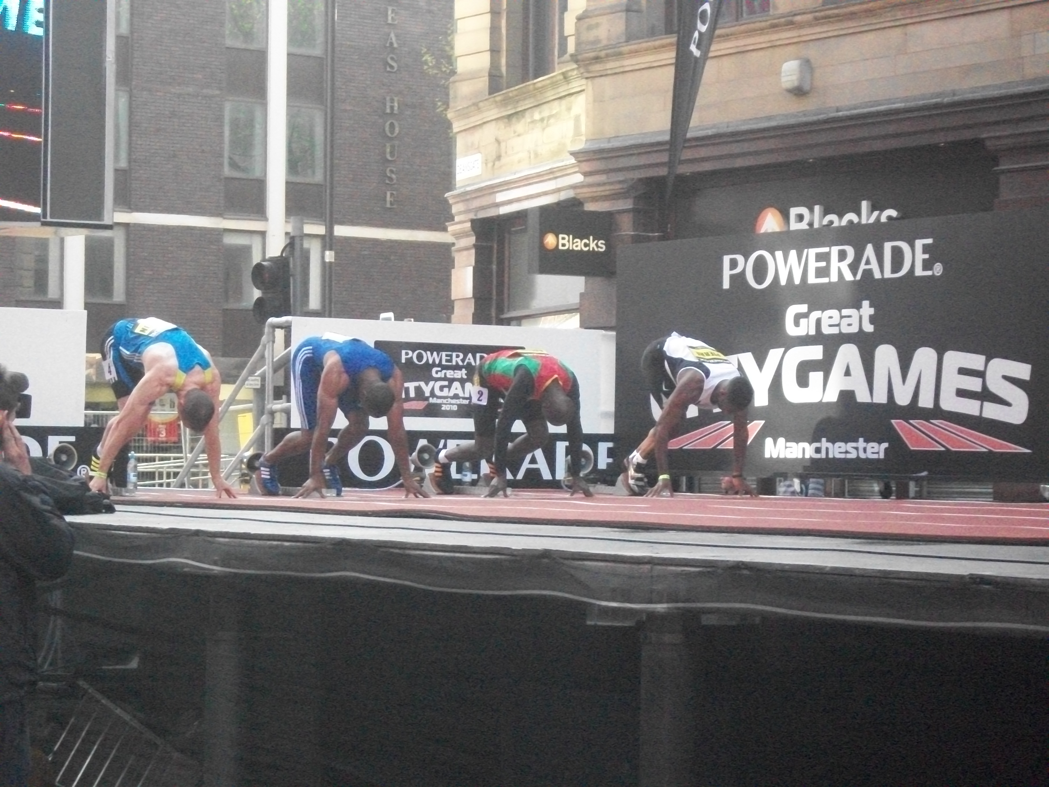 The start of the 200 metres straight race at the 2010 Great City Games on a specially constructed track on Deansgate, Manchester, England. (From left) Paul Hession, Tyson Gay, Kim Collins, and Rion Pierre waiting for the starter's pistol. Tyson Gay won the race in a time of 19.41 seconds, breaking Tommie Smith's long standing record over the distance in the infrequently held event.